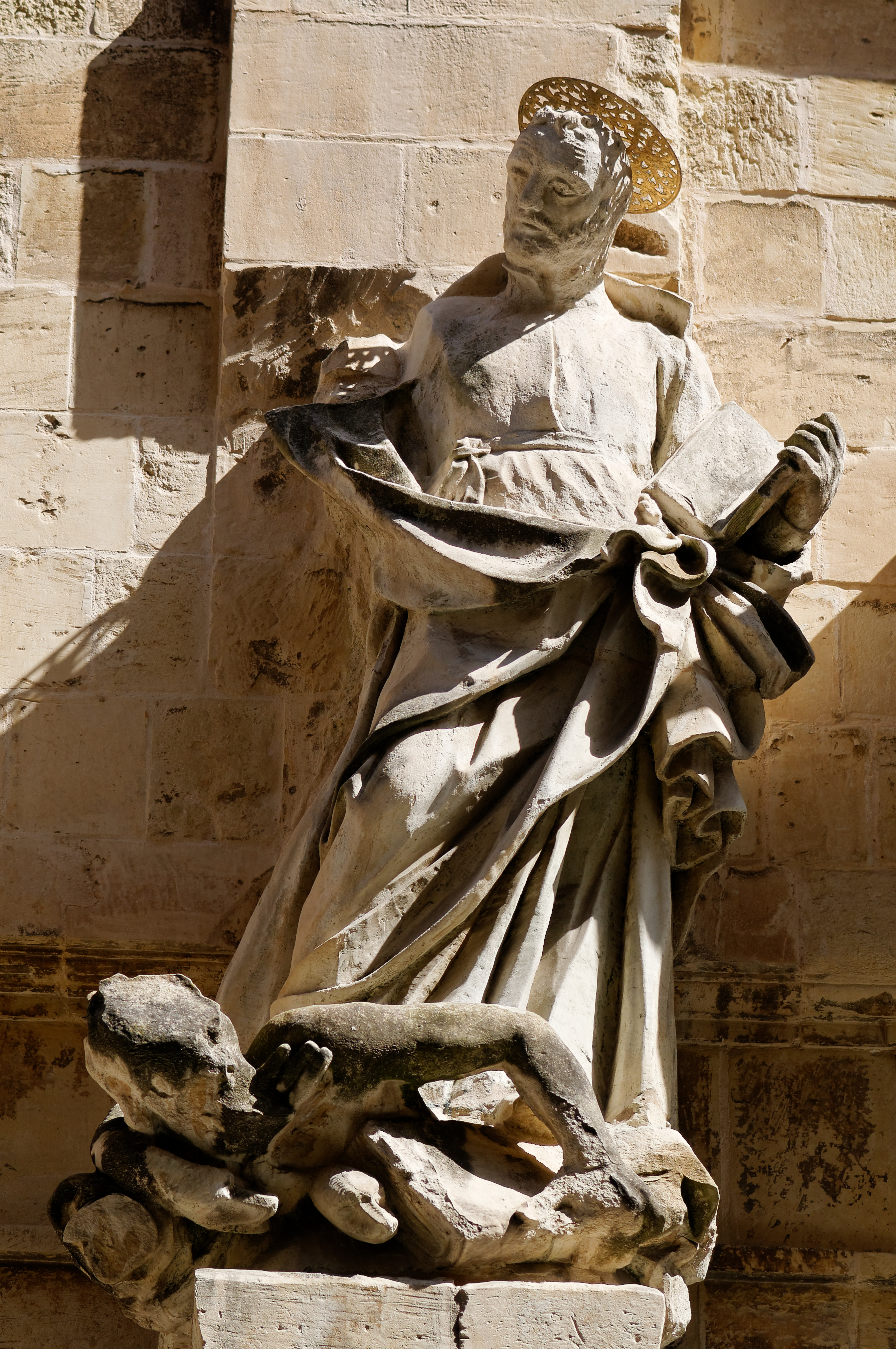 Statue of a Jesuit saint on the façade of the Jesuits' Church (Tal-Gizwiti) in Valletta, Malta. This media is about Maltese cultural property with inventory number 00582.